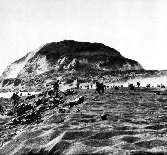 Marines landing on Iwo Jima from Marines in World War II - Historical Monograph: Iwo Jima: Amphibious Epic by Lt. Col. Whitman S. Bartley, USMC, Historical Section, Division of Public Information, Headquarters, U.S. Marine Corps, 1954; retrieved from